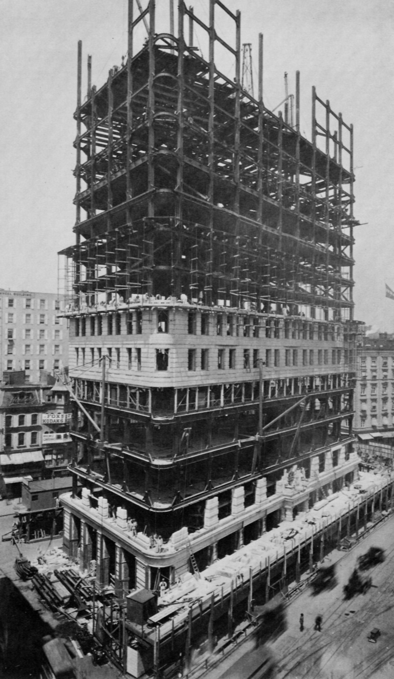 framework of Flatiron Building around 1901